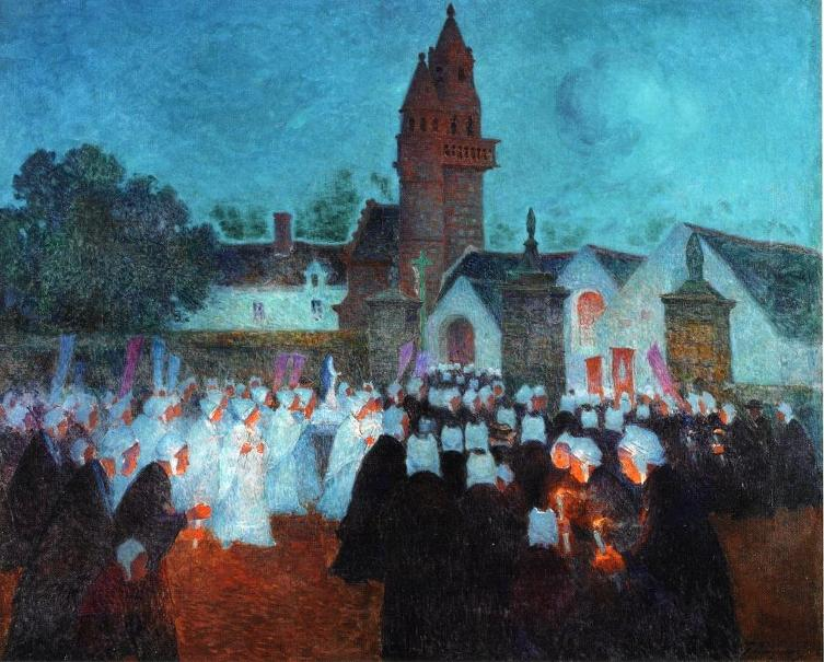 Oil painting reproduction of Ferdinand du Puigaudeau.